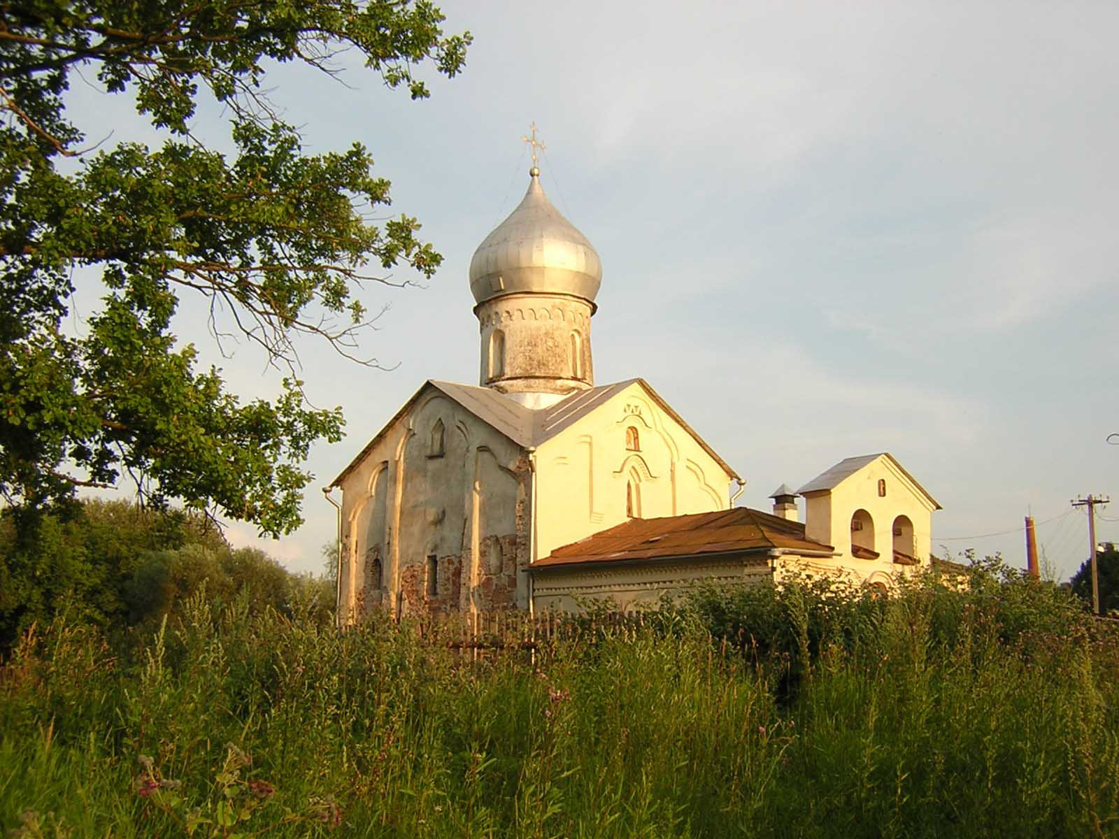 St. Ioann Na Vitke churche in Veliky Novgorod, Russia